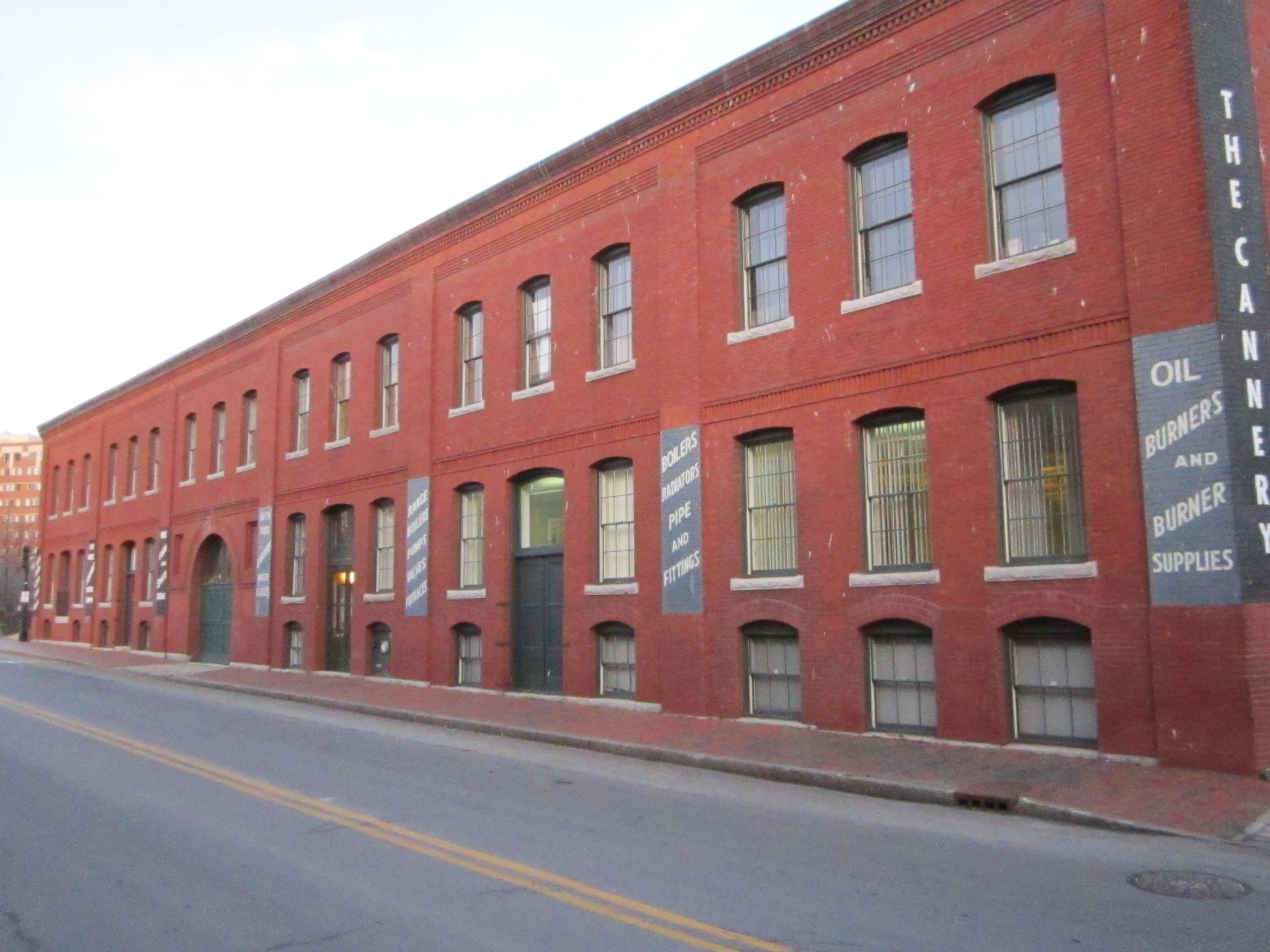 The Portland Packing Company Factory located on York Street in Portland, Maine